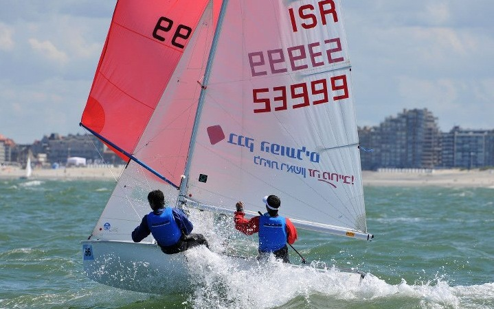 Side wins sailing